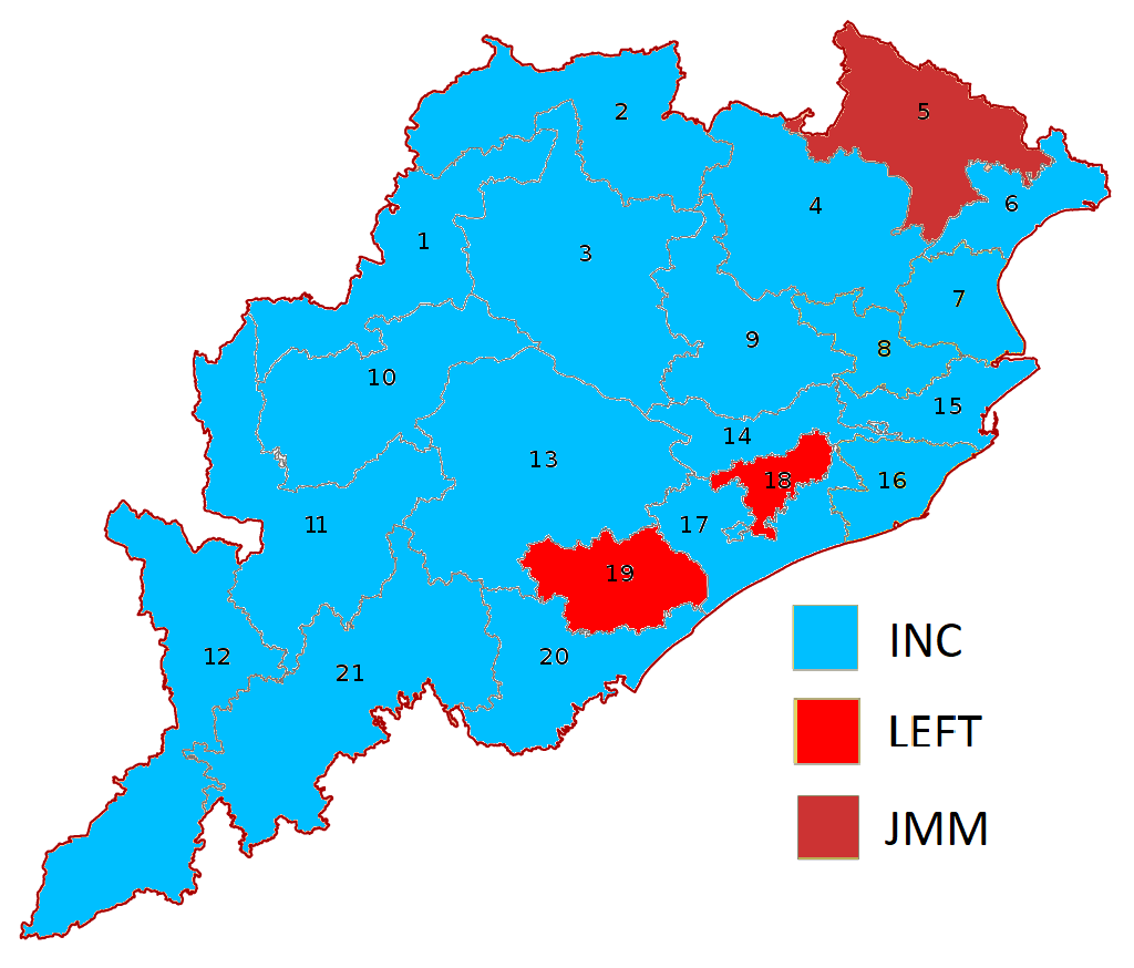 Seat Sharing Arrangement of UPA in Odisha in 2019 General Elections